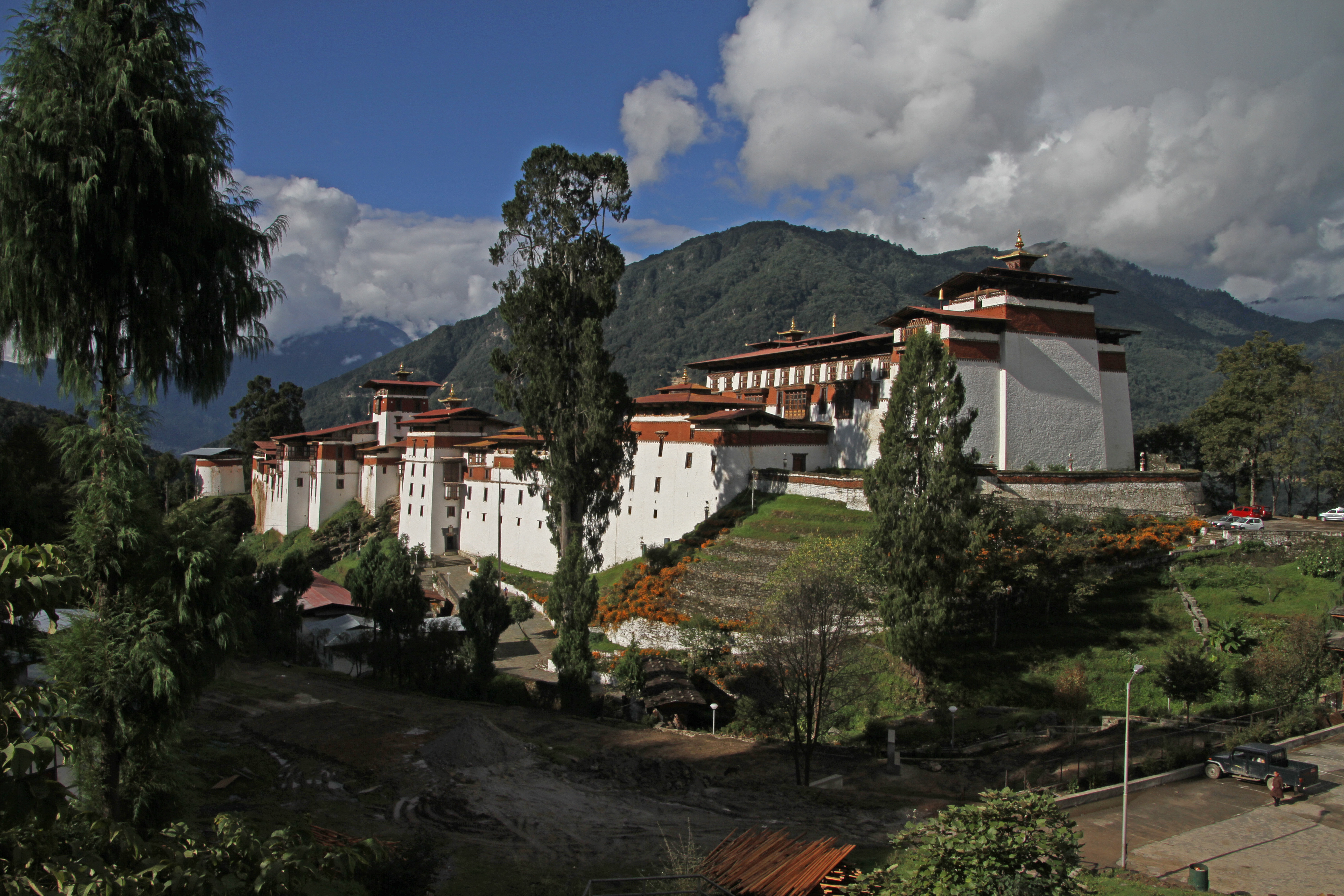 Trongsa Dzong